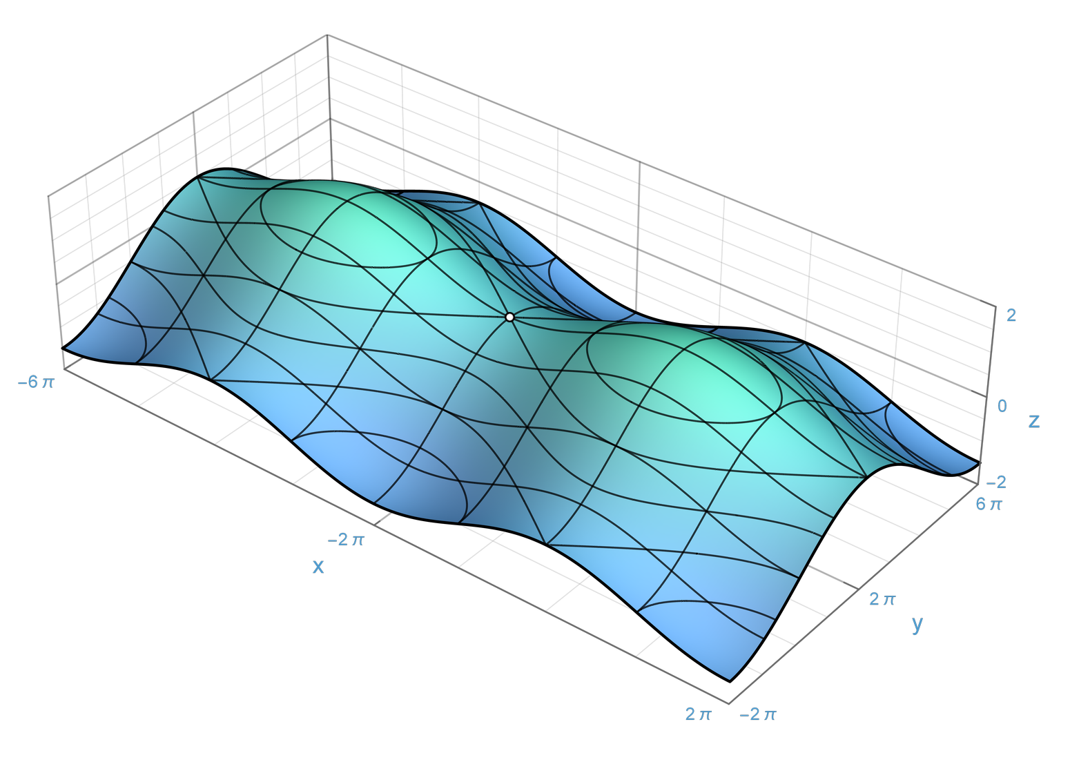 A saddle point, on the graph of the function f(x,y) = 1/2 Cos(x/2) + Sin(y/4).